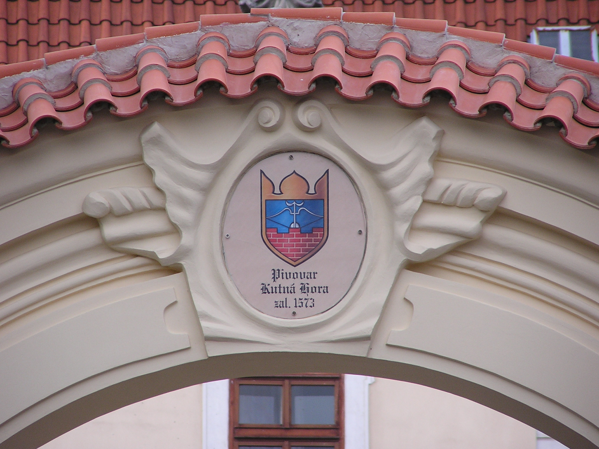 Kutná Hora Brewery